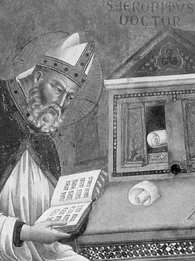 Saint_Jerome_1296_1300_Church_of_San_Francesco_Assisi